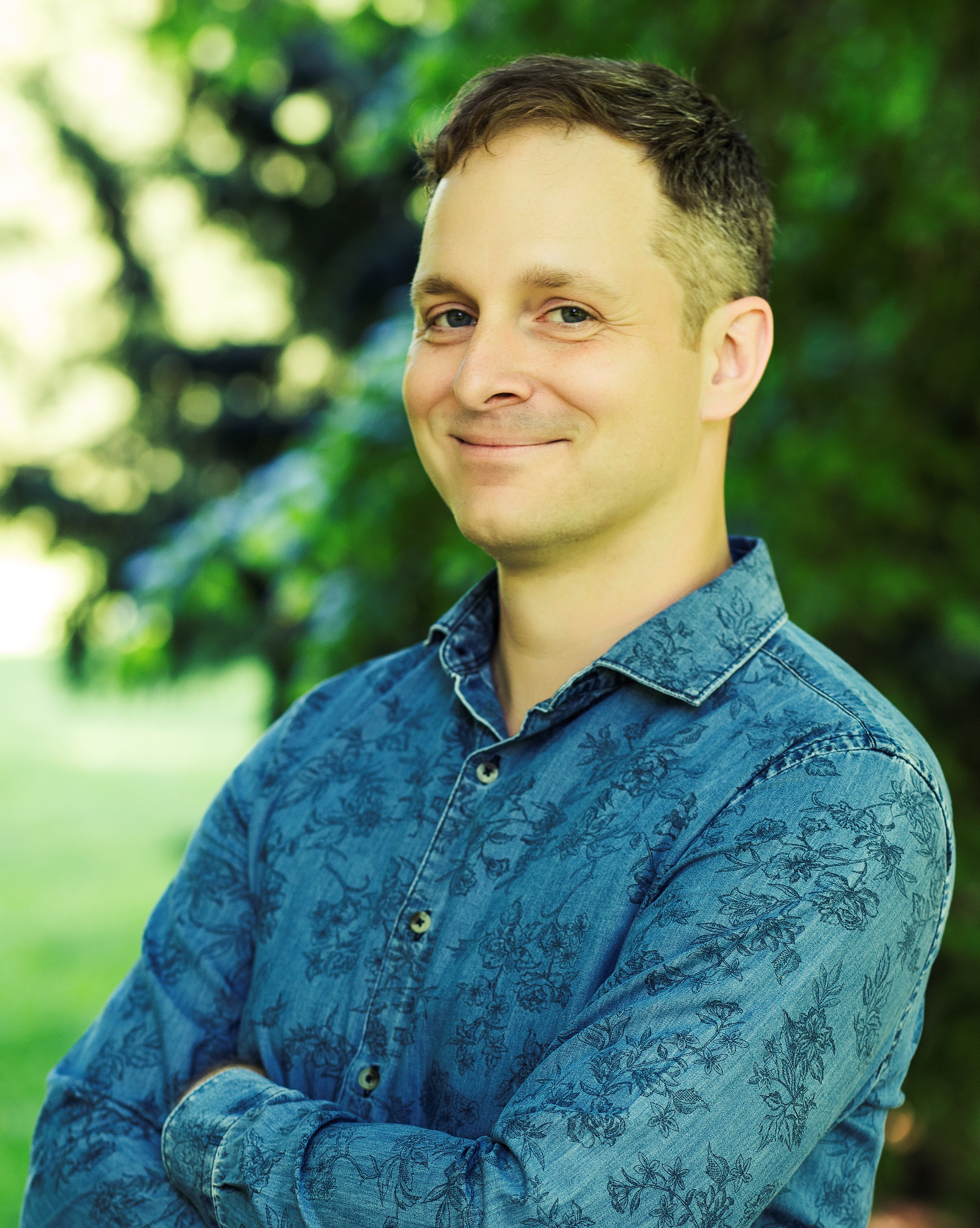 Robert Vlach